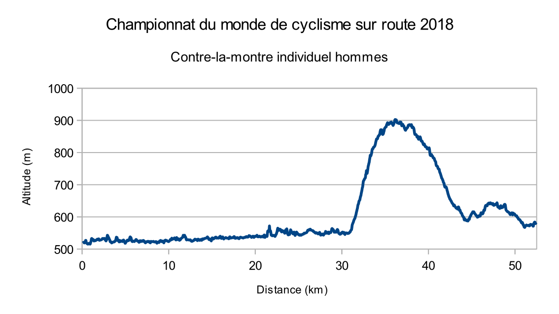 Profil of the men ITT at World Championship 2018 in Innsbrück.